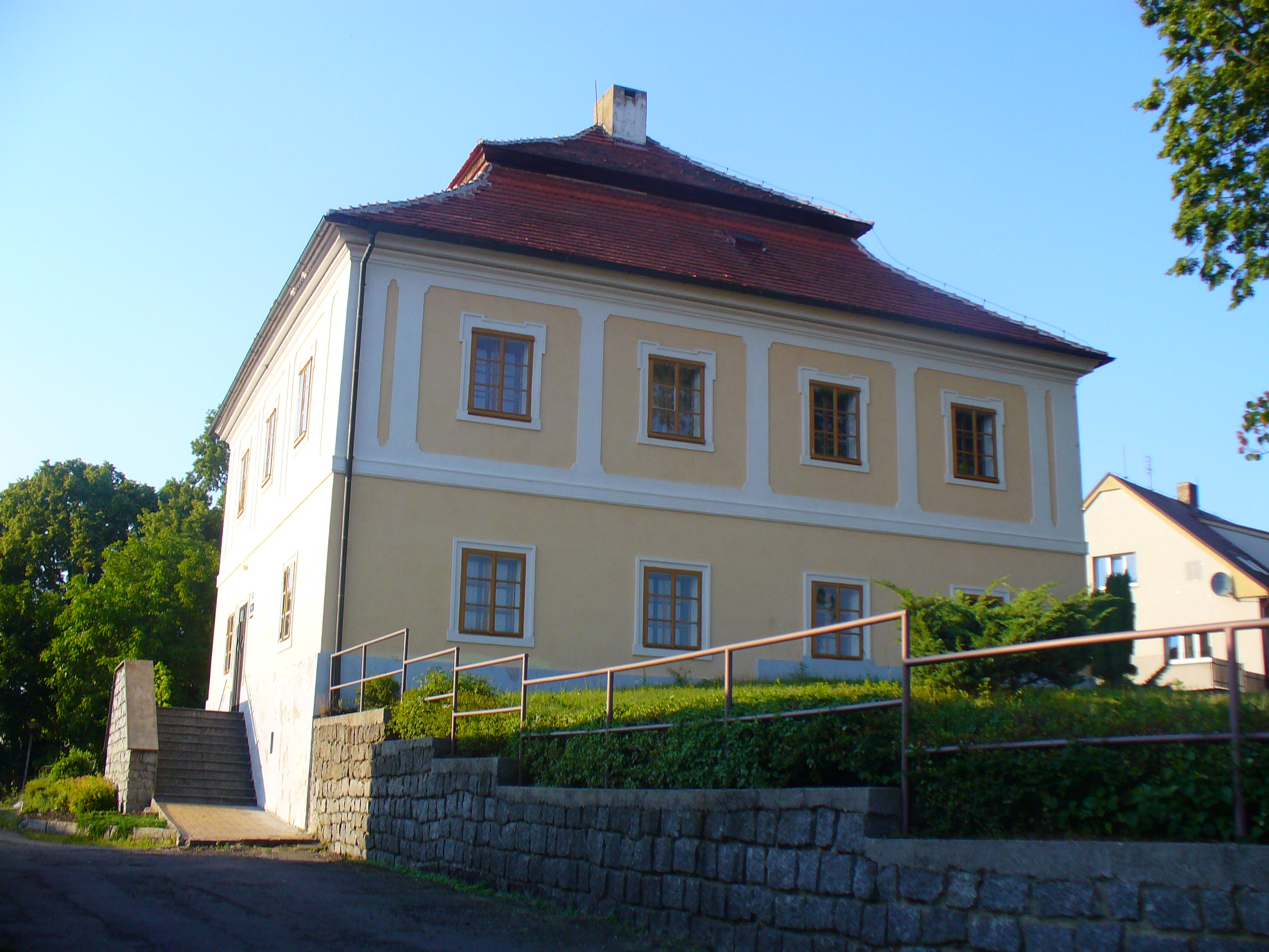 Late rectory in Kovářov